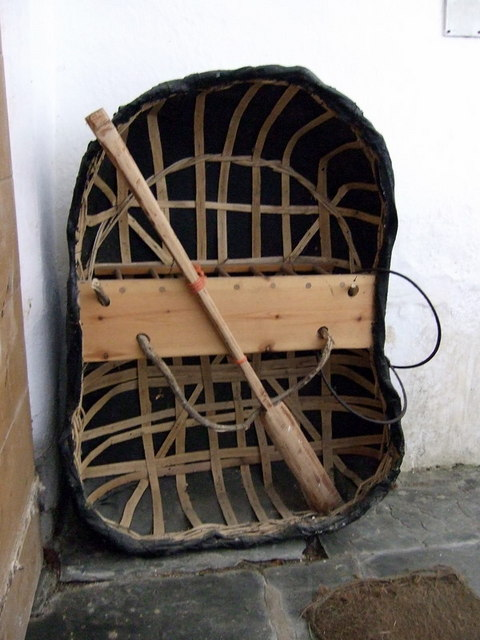 The coracle in the church To quote the information booklet available in the old church at Manordeifi: An old coracle traditionally lies in the porch, mute testimony to the time when the church was isolated by the floods that often flowed through the building. The Teifi then ran alongside the church but its course has changed during the years and, although the coracle was used during living memory, the danger of flooding was thought no longer to exist. However in the autumn of 1987 the church was flooded again, caused, it is thought, by the failure to maintain the dredged channel below Llechryd Bridge. The present coracle is on loan to the church from Mr Bernard Thomas of Llechryd. He used this particular craft on his epic journey across the English Channel.